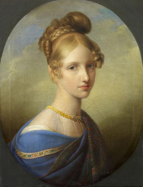 Archduchess Clementina of Austria (1798-1881), Princess of Salerno